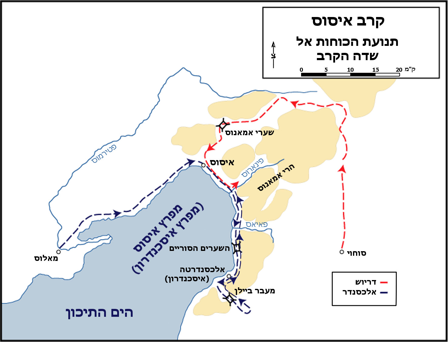 Movements of the battle of Issus